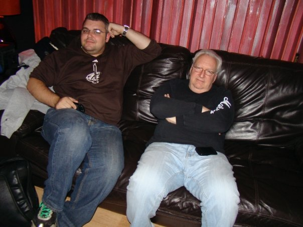 Photo by Josh Solomon of David and Adam Spero while recording at Ante Up Studio B in October, 2009.